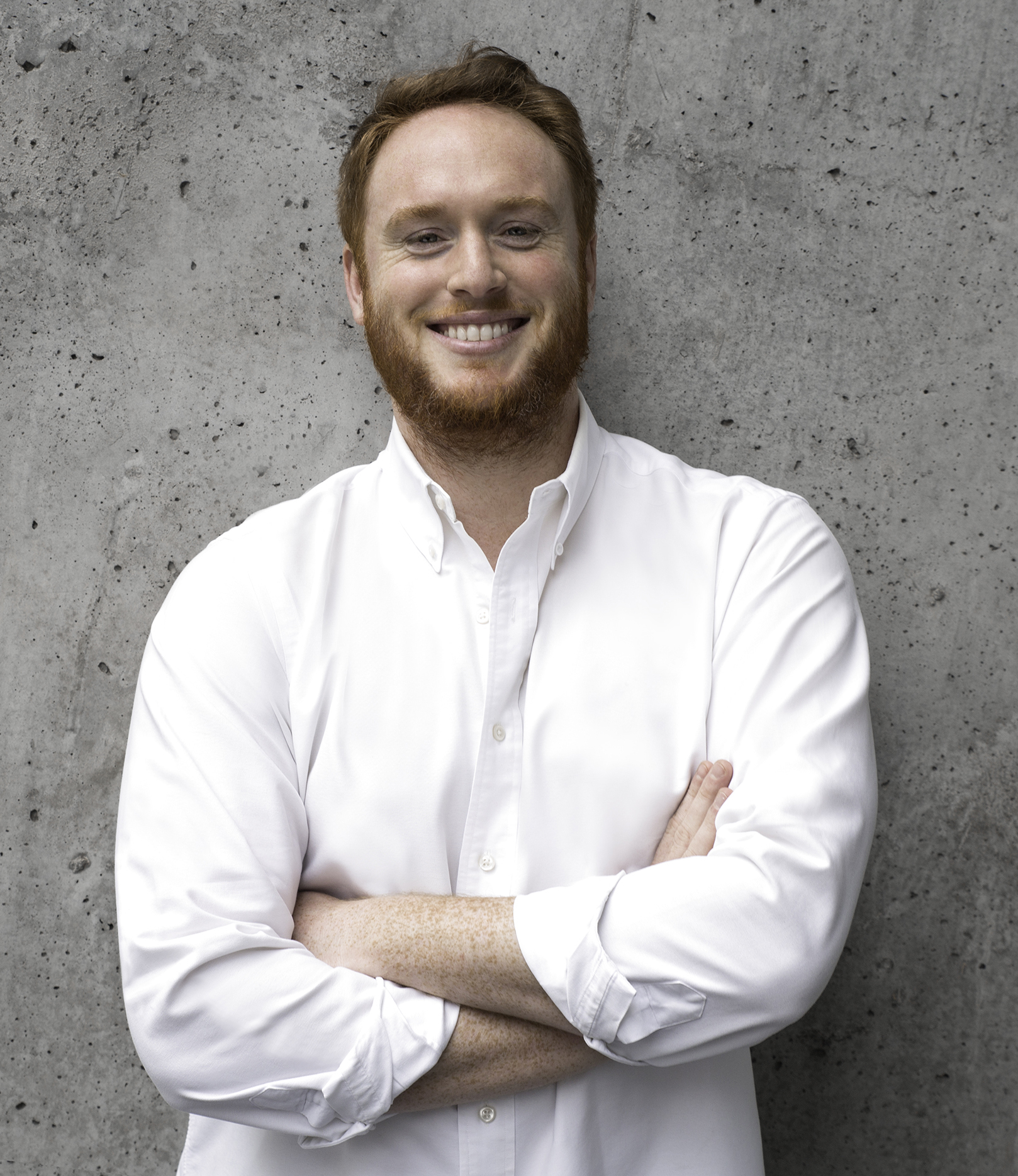 2017 photo of Noah Kraft